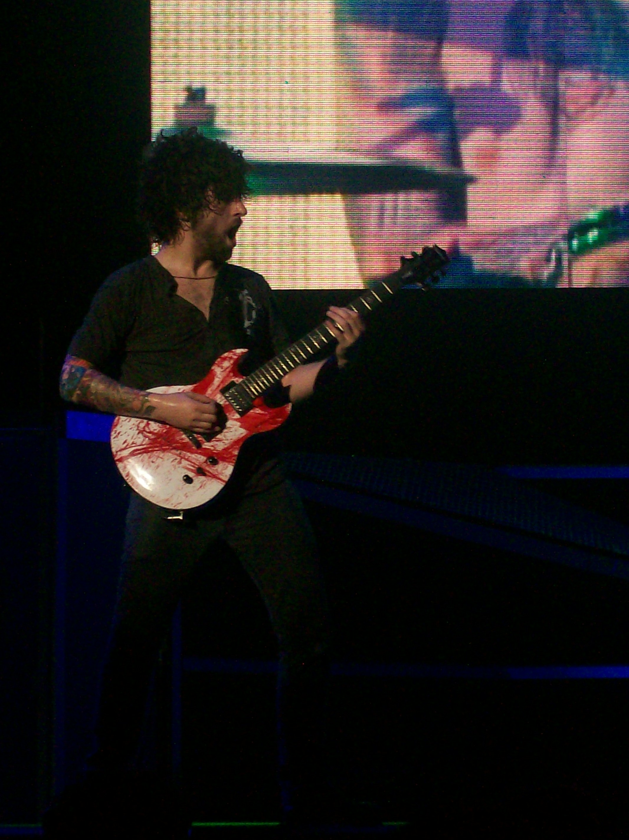 Joe Trohman, taken at the Honda Civic Tour in West Palm Beach